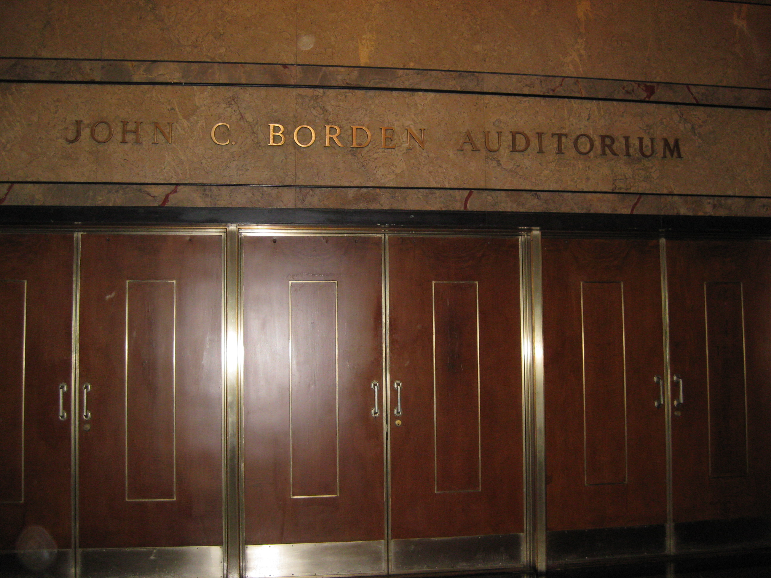 This photo is of Wikipedia Takes Manhattan location code 17, Manhattan School of Music.